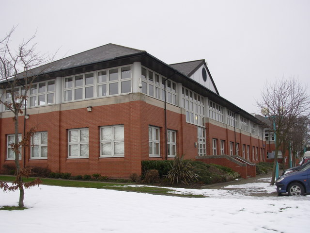 Bolsover District Council Offices Built in the 1990's and named 'Sherwood Lodge' it is situated on land originally known as the Kitchen Croft.